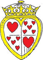 Coat of Arms of Wonderland, colorized from Tenniel frontispiece (File:Alice frontispiece-937x1333.jpg etc.). Quarterly, 1st and 4th argent a heart gules, 2nd and 3rd argent 5 hearts in saltire gules.